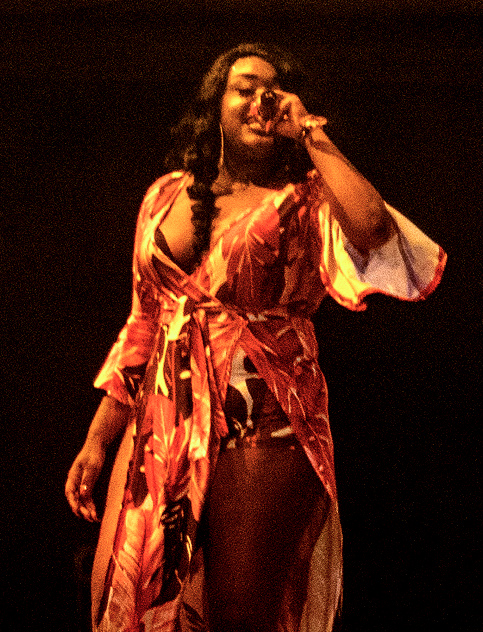 Rapper Cupcakke at Primavera Sound 2019, with color correction